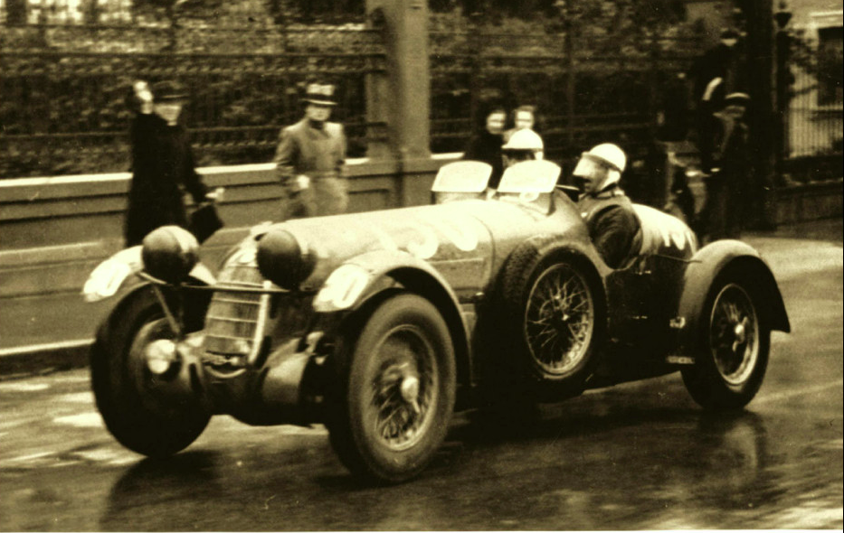 Entry #150 and WINNERS at Mille Miglia in Italia on 4 Aprile 1937 was Carlo Maria Pintacuda e Paride Mambelli.[1]